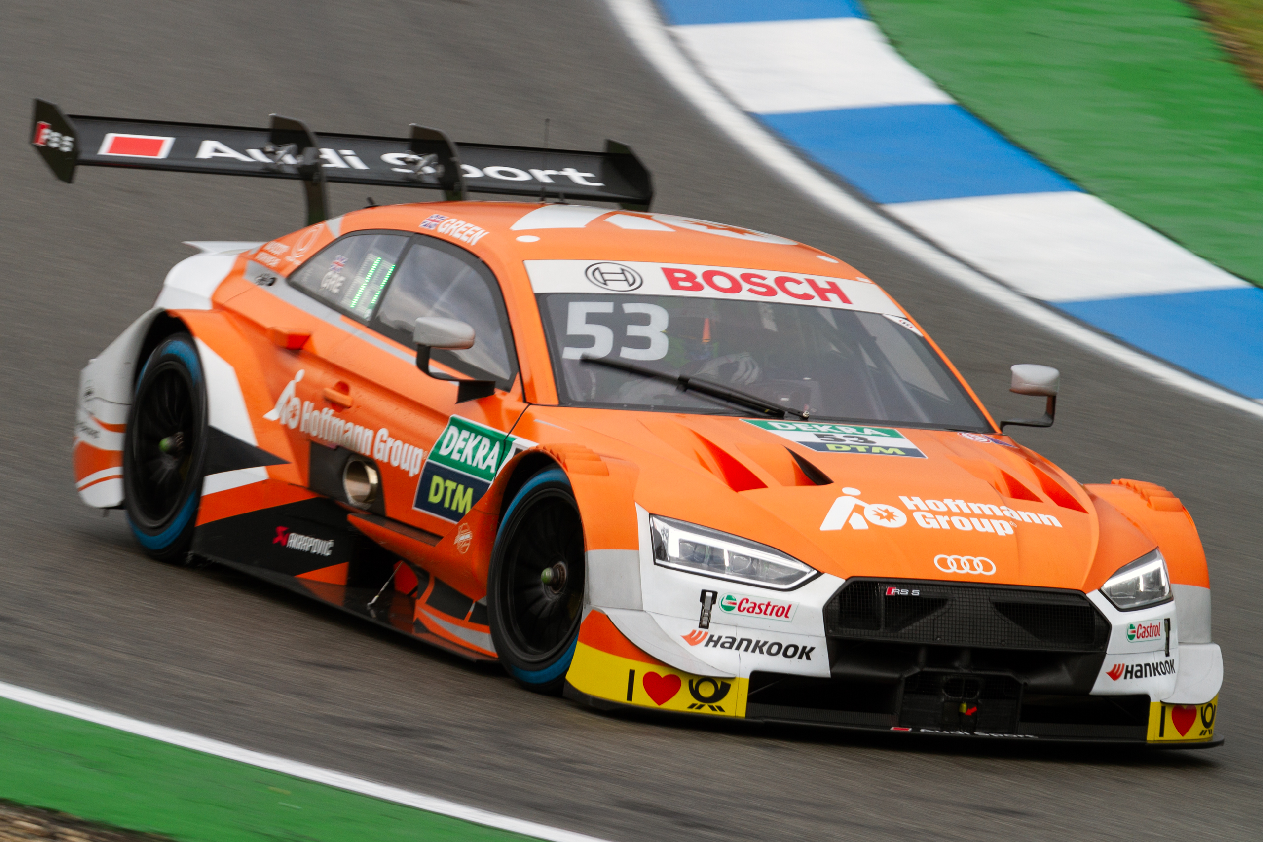 2019 DTM Hockenheimring (May): Audi RS5 Turbo DTM of Jamie Green